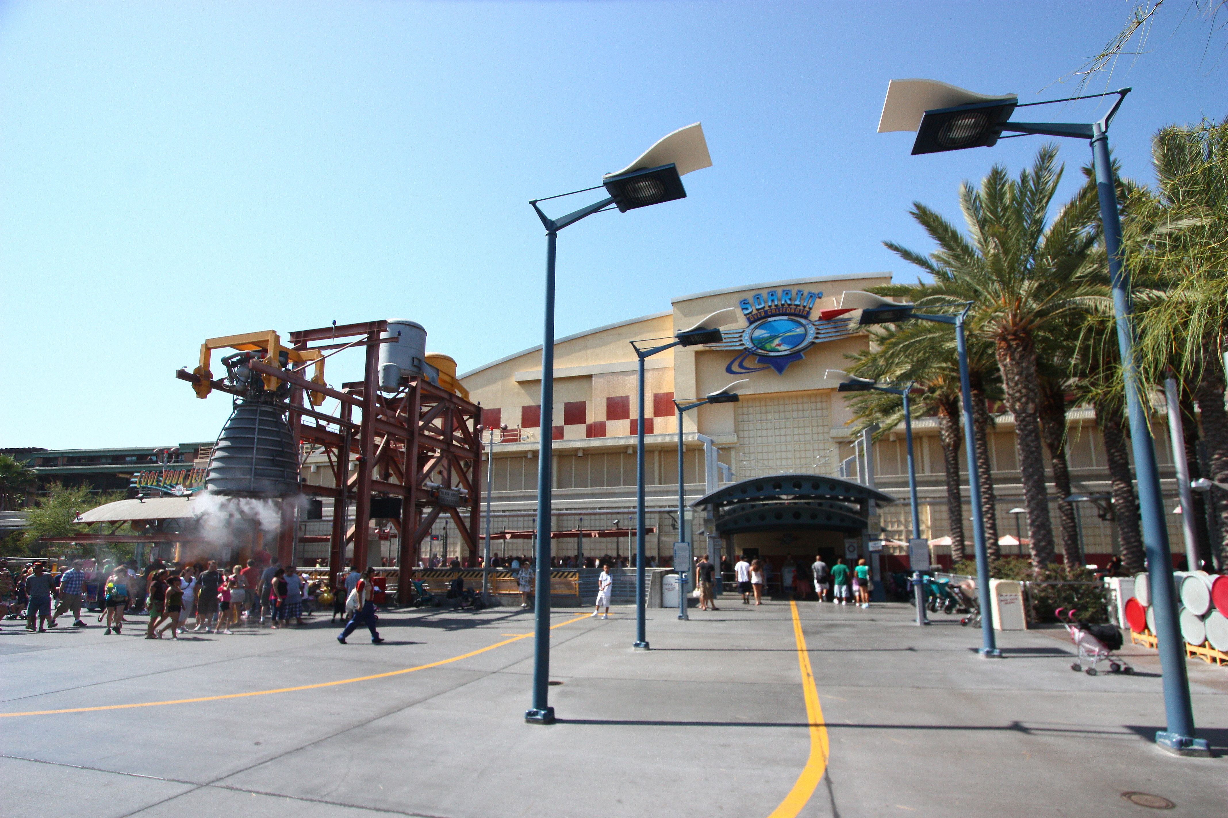 Entrance to Soarin' Over California